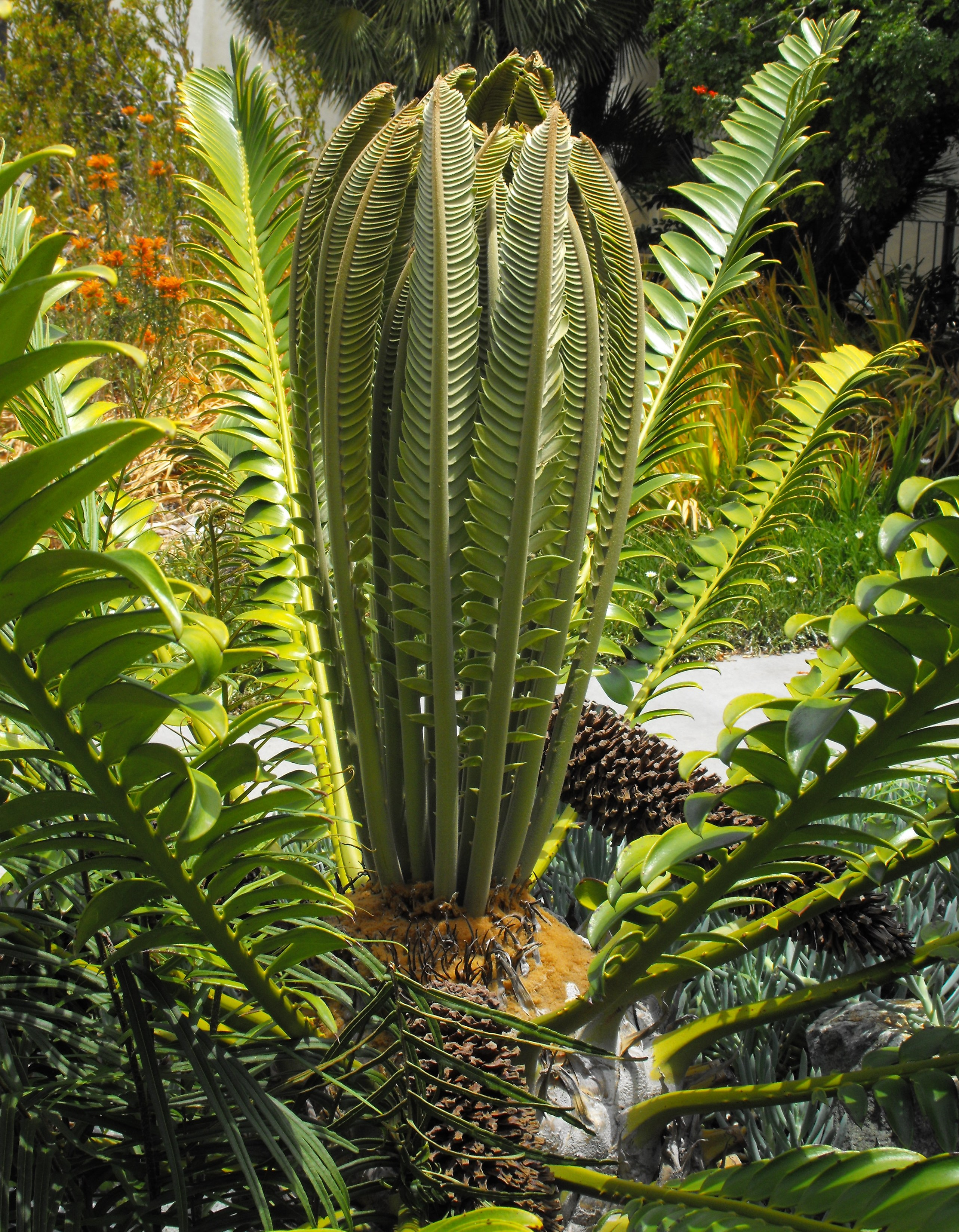 Encephalartos transvenosus in the Mediterranean Garden at San Diego State University, California, USA.